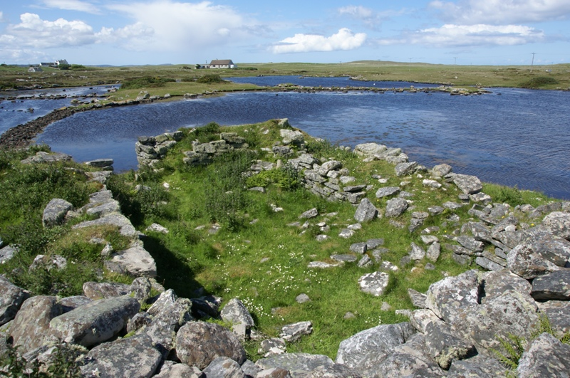 Dun an Sticir, North Uist, Outer Hebrides, Scotland